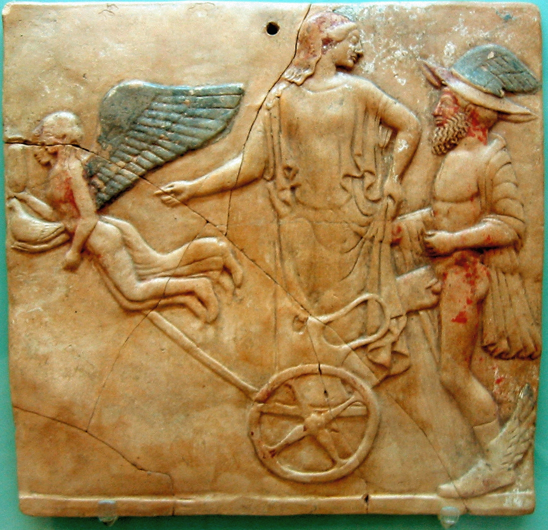 Pinax of Eros, Hermes and Aphrodite(?). Found in the holy shrine of Persephone at Locri in the district Mannella. Locri was part of Magna Graecia and is situated on the coast of the Ionian Sea in Calabria in Italy. Source: Picture taken by myself in the Museo Nazionale Archeologico at Reggio Di Calabria in Italy, September 2002. See other Pinakes from Locri Persephone And Hades Persephone Opens Likon Mystikon Man With Horse